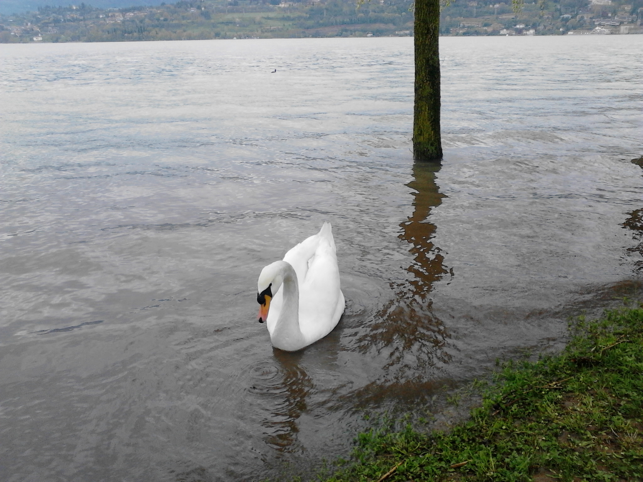 Cygnus Olor in Bosisio Parini ITALY